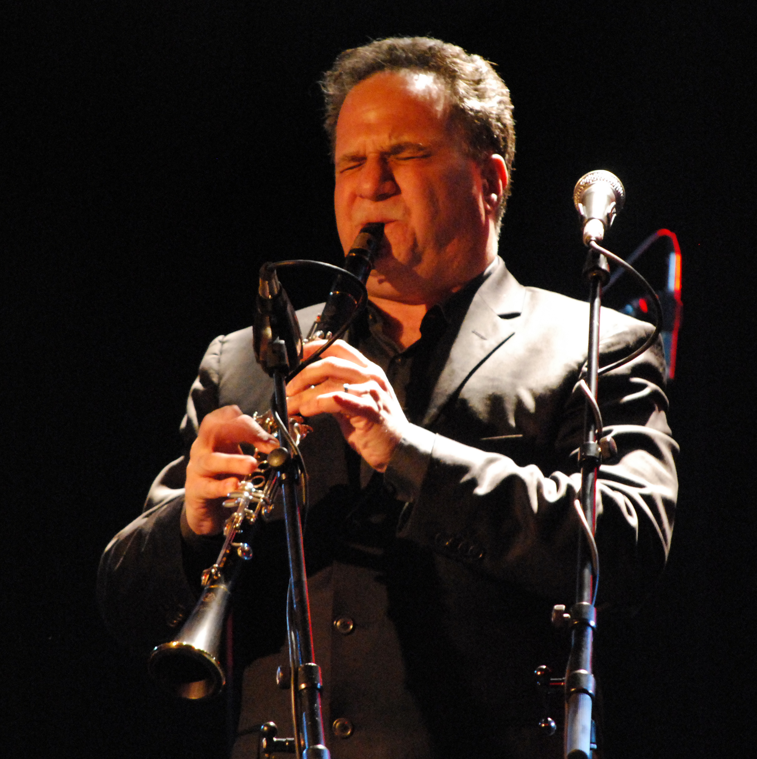 David Krakauer, Treibhaus Innsbruck, 2009